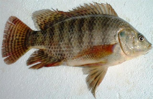 Oreochromis niloticus, Northern Nile Delta, Egypt